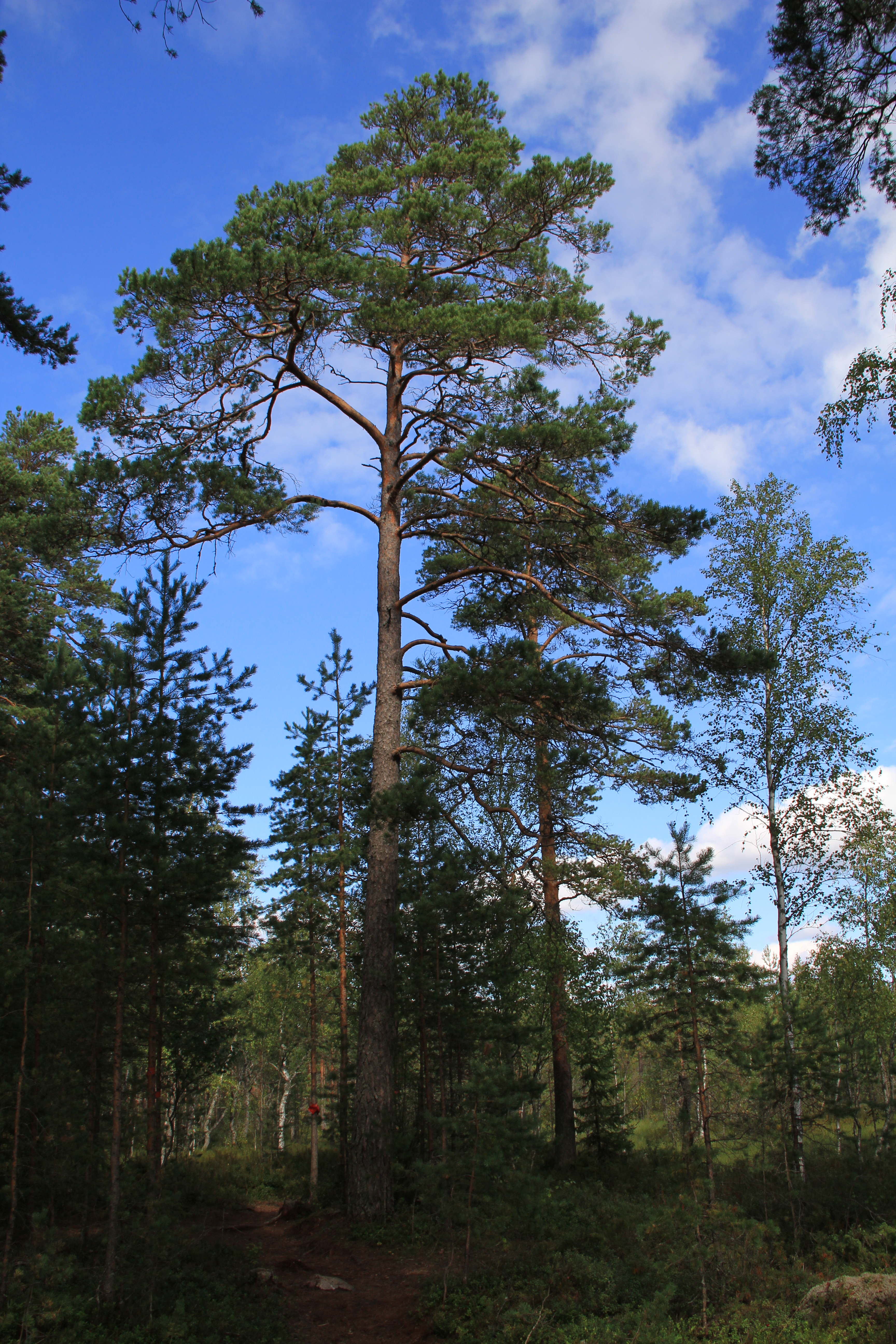 Scots pine in Kurjenrahka National Park, Finland.